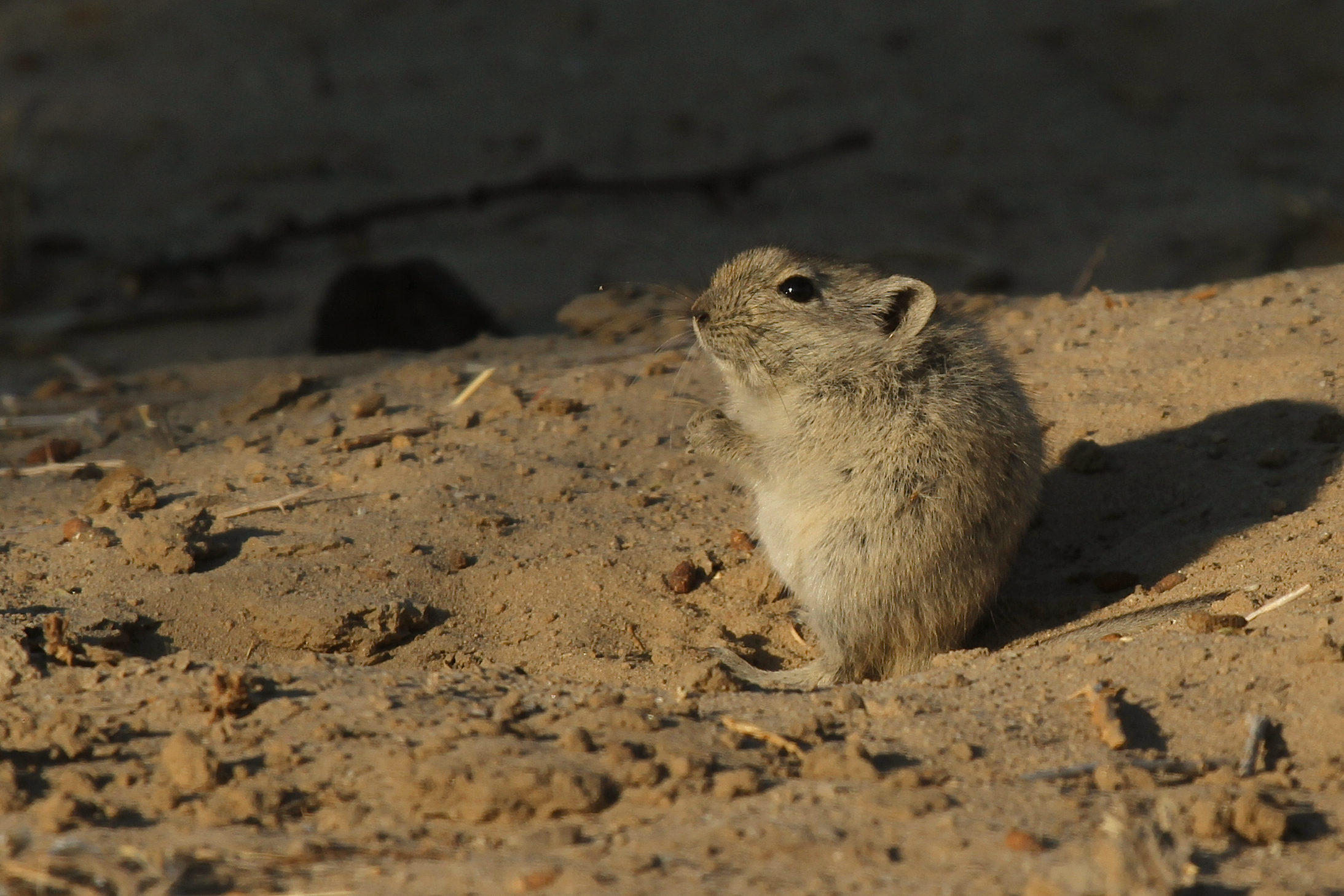 Brants's Whistling Rat (Parotomys brantsii) taken in Kgalagadi Transfrontier Park